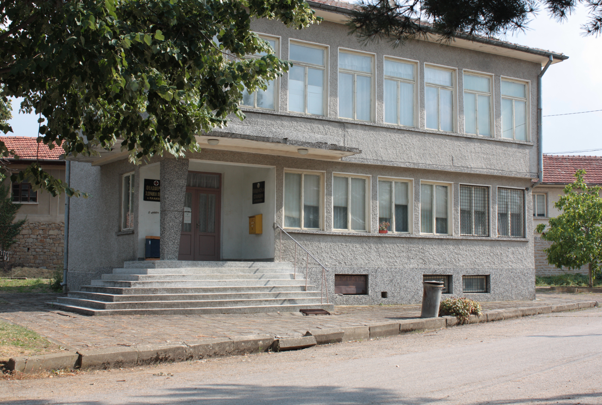 Medical center and Post office in Plakovo, Bulgaria